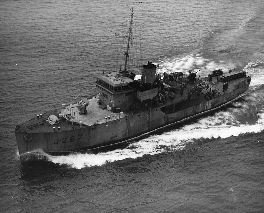 HMCS Digby, J267. Bangor-class minesweeper. Atlantic Theatre, WWII.